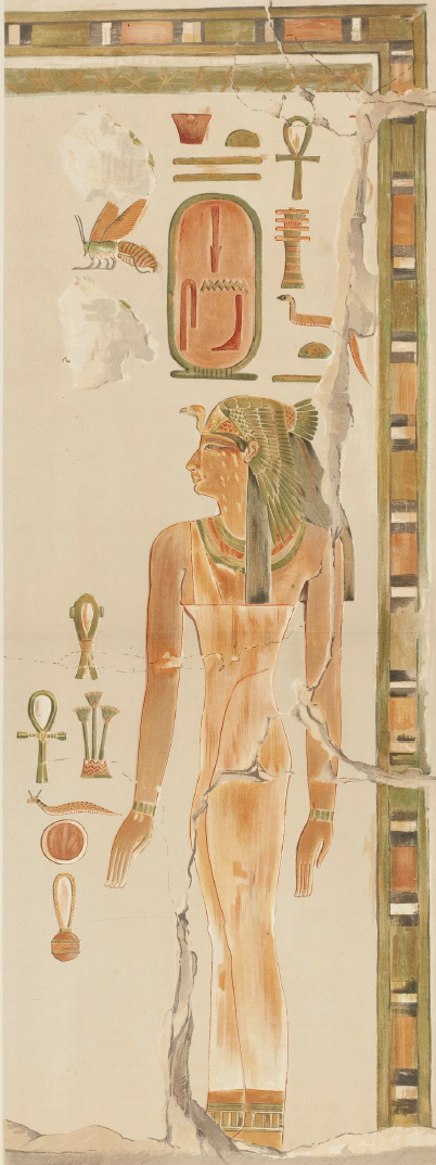 Drawing by Hoawrd Carter of a painted relief of queen Senseneb, mother of Thutmose I, from Deir el-Bahri.